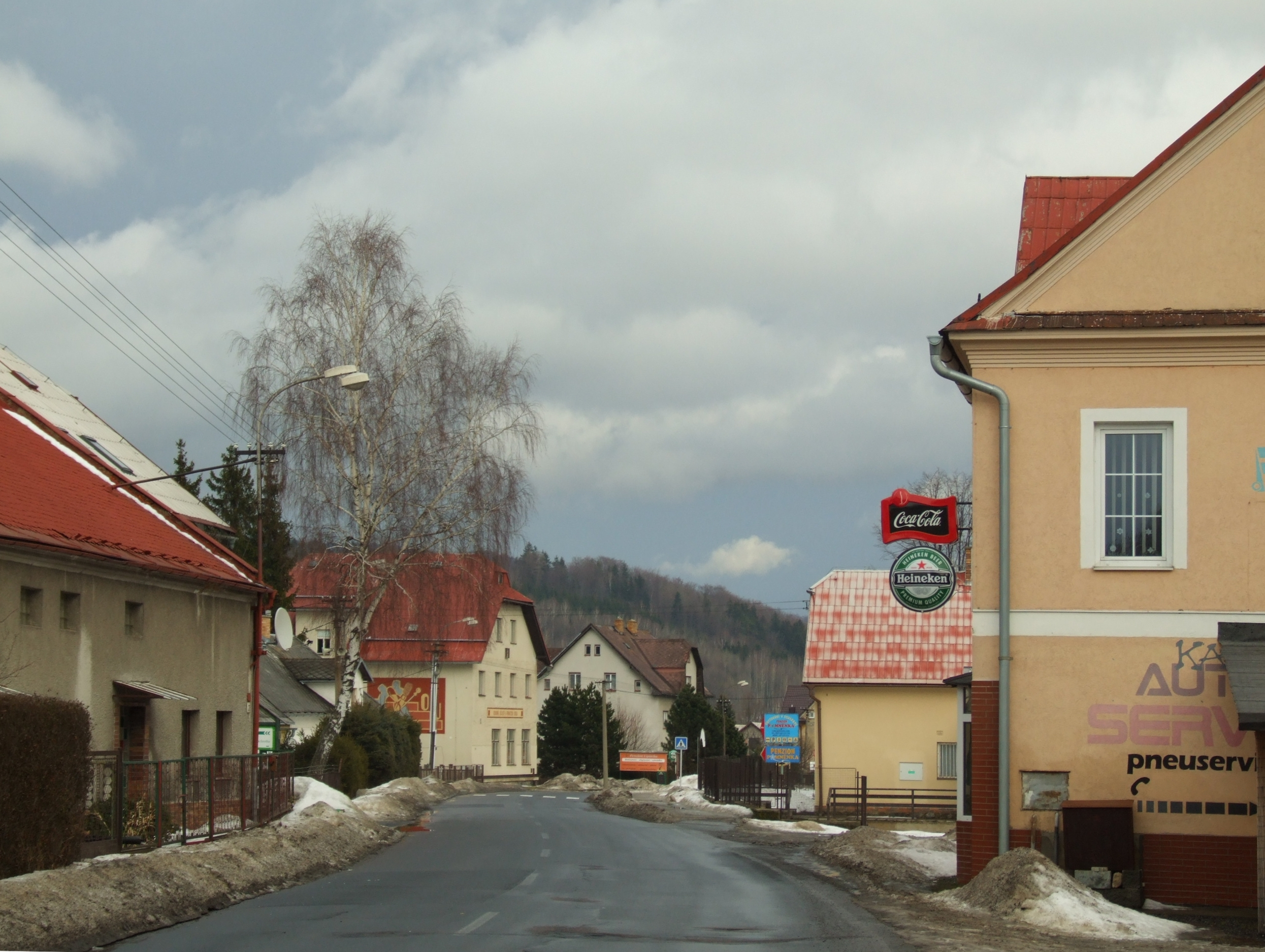 Lipová-lázně (Bad Lindewiese), Czech Silesia - main road (nr 369)